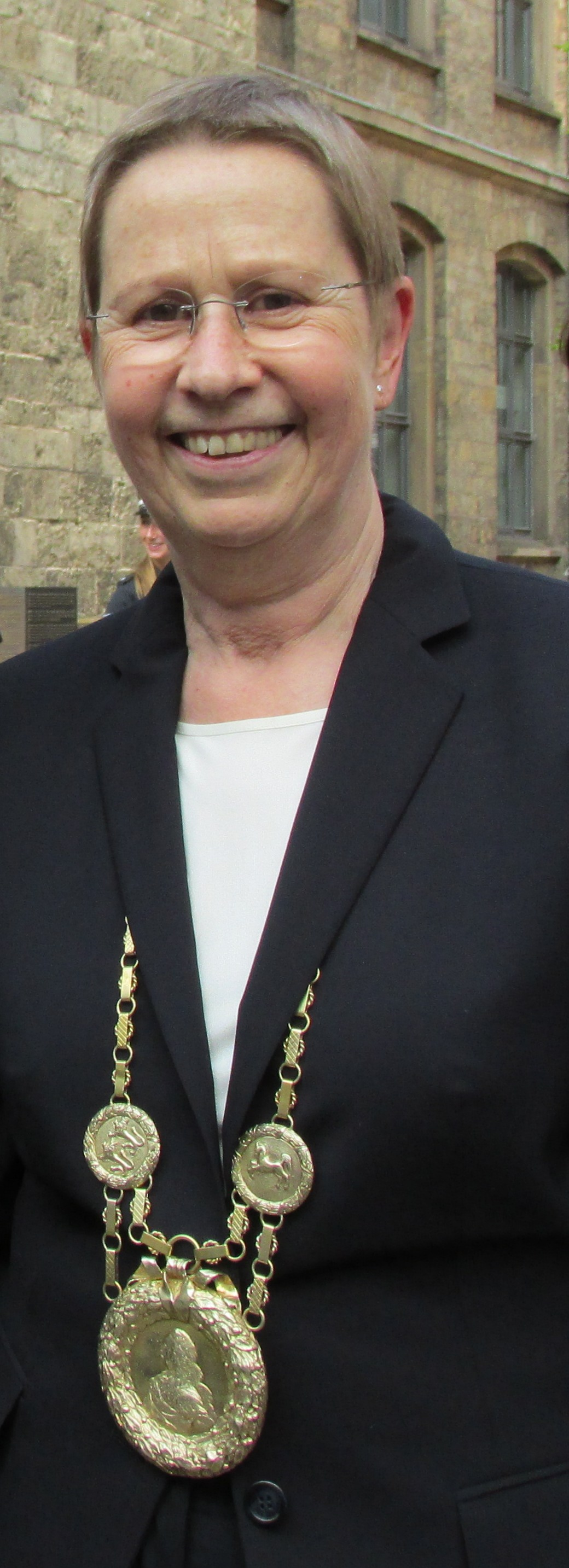 Ulrike Beisiegel, President of the University of Göttingen, Göttingen, Germany check usage